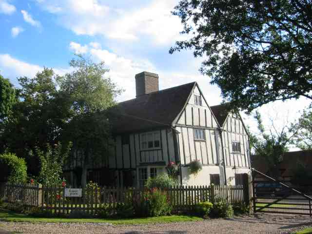 'Mediaeval' building of Lower Farm at Bell Bar, in the North Mymms civil parish of Hertfordshire, England.